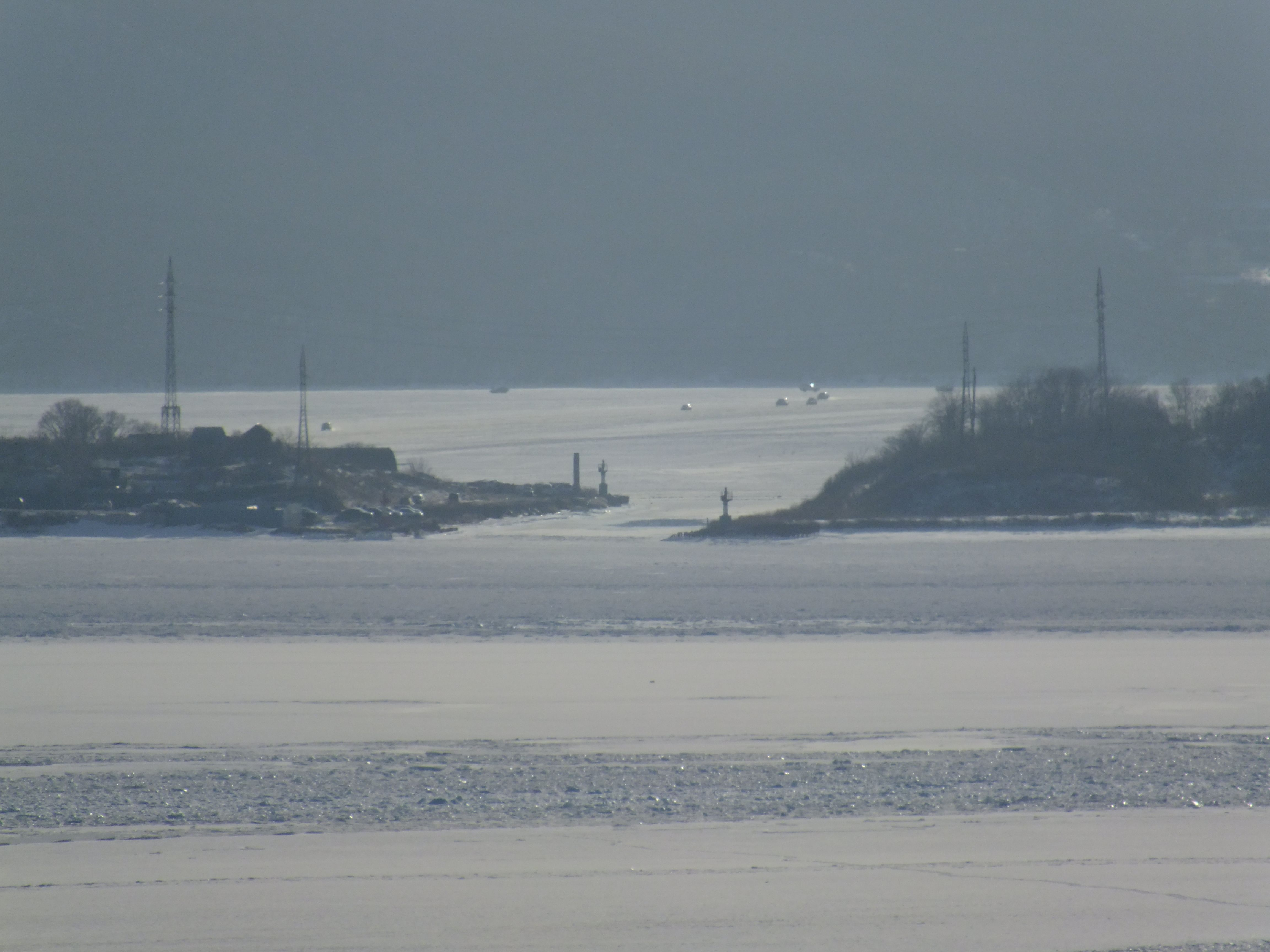 Eastern Bosphorus